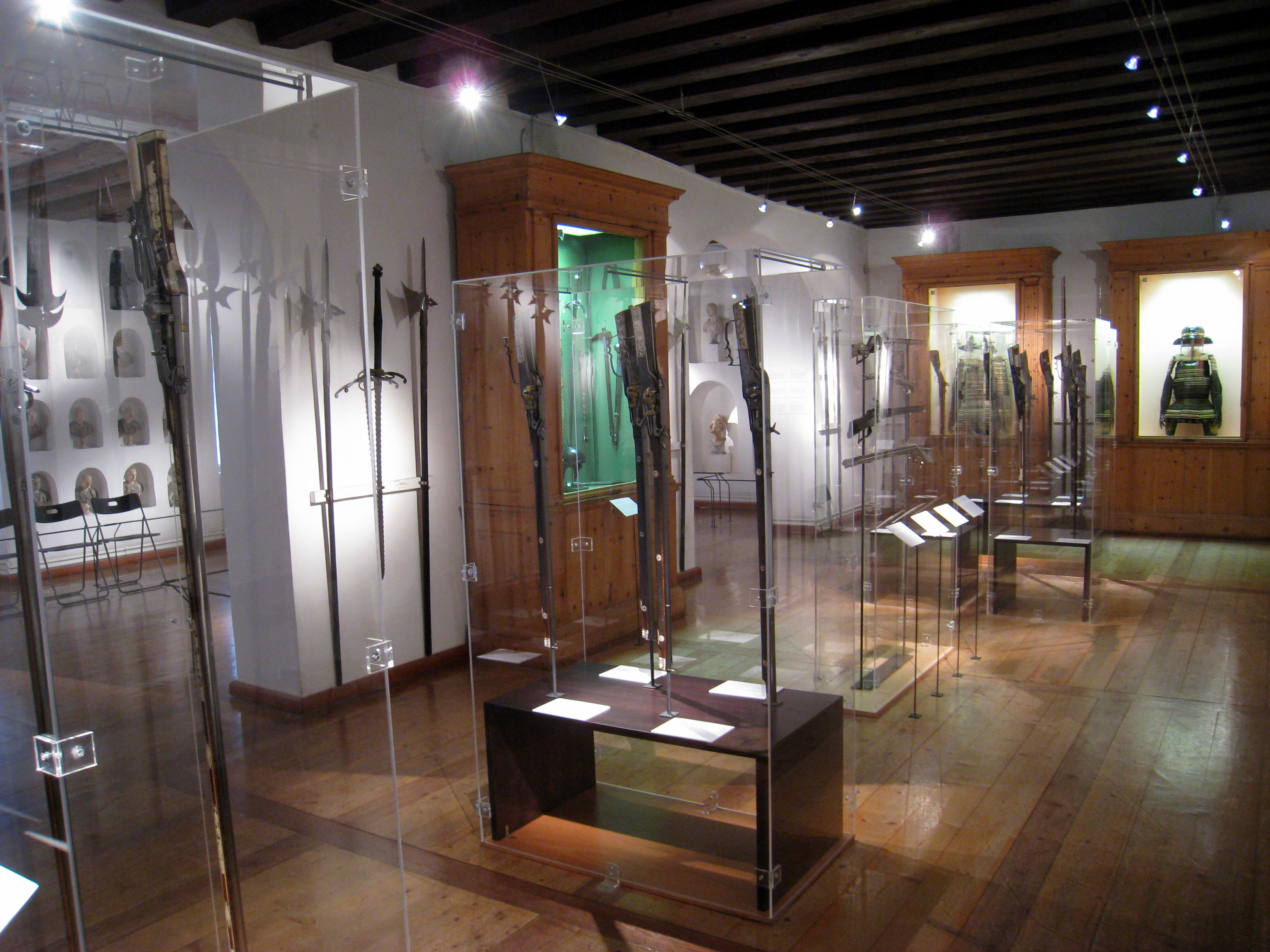 Schloss Ambras, Innsbruck, Austria - from the castle's collection of art and curiosities. General view of some of the curiosities.